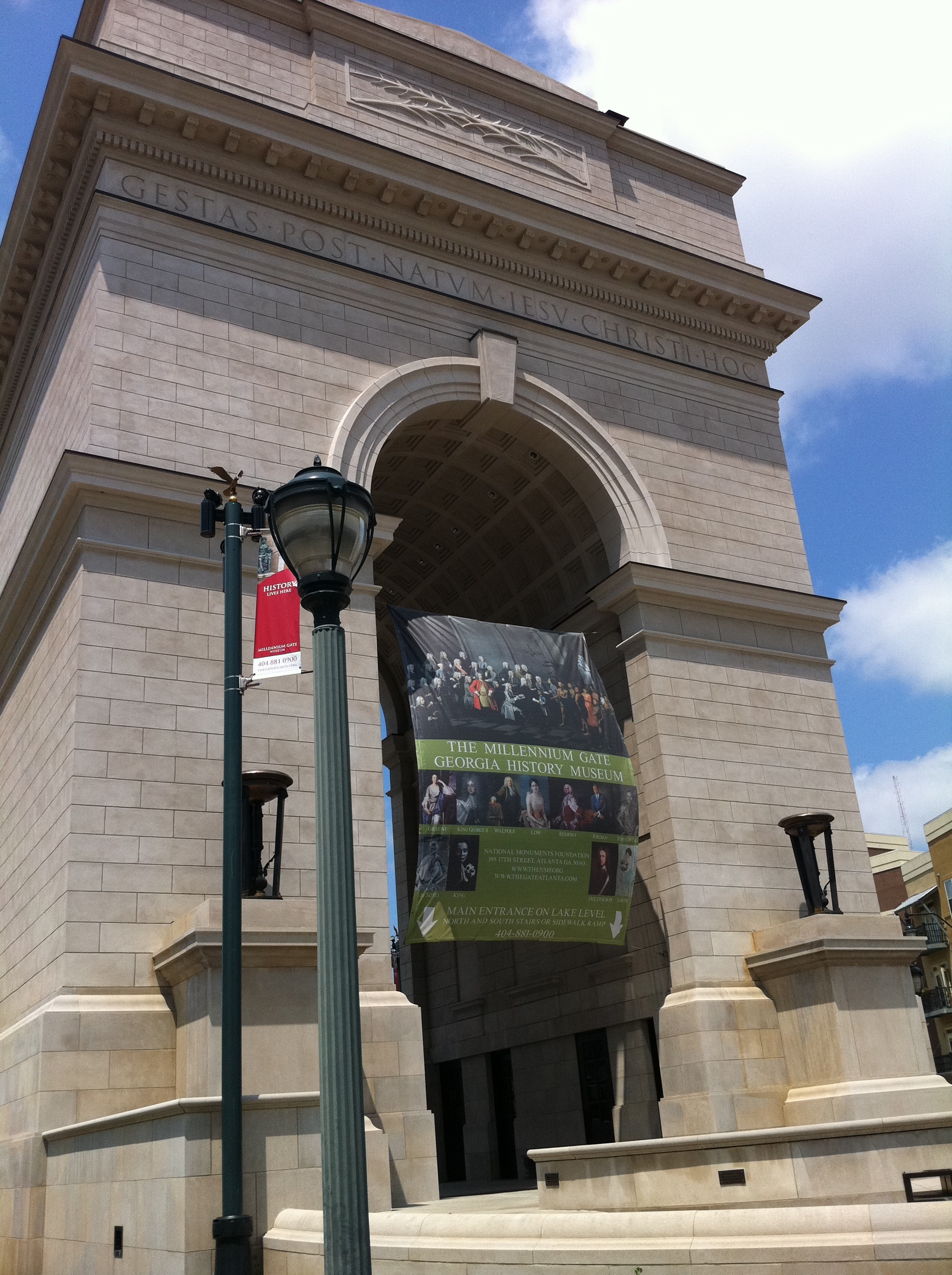 This is a photo of the Millennium Gate located in Atlanta Georgia